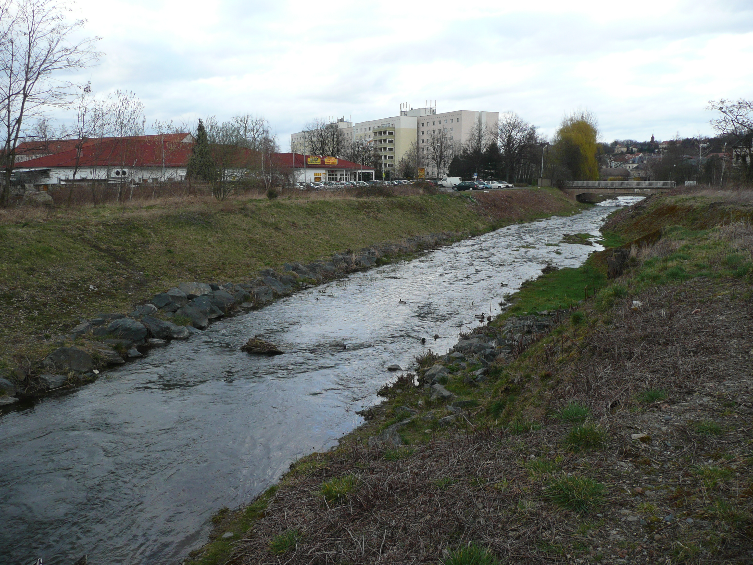 This image shows the river Seidewitz, a left tributary of the Gottleuba, in Pirna.